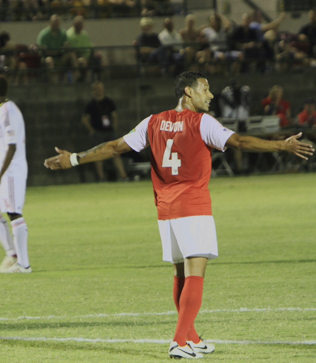 Phoenix FC's Devon at home against Real Salt Lake